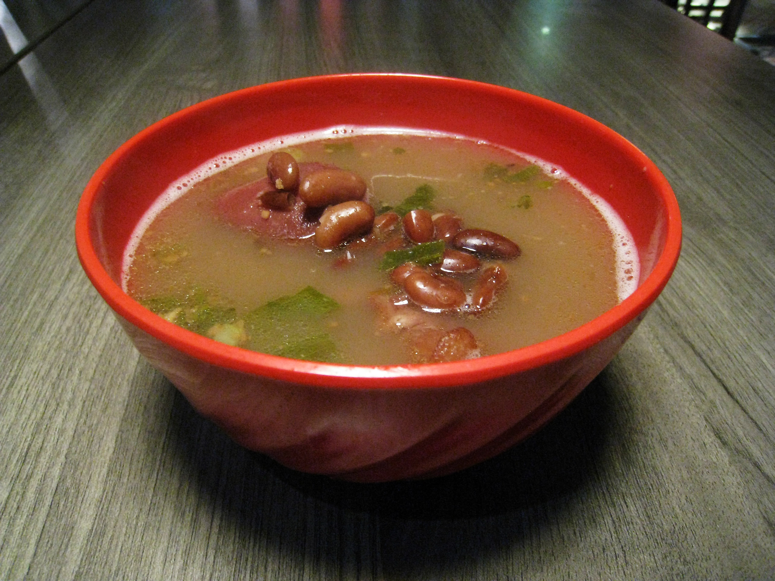 Brenebon, red kidney bean soup with pork trotters. A Minahasa (Manado) cuisine specialty, Indonesia.